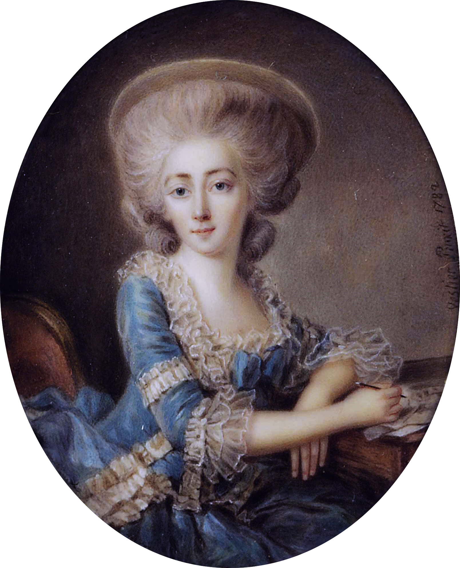 Madame de Montesson (1738-1806) on ivory oval 8.1 cm signed c.r.: Vestier Pinxit 1782